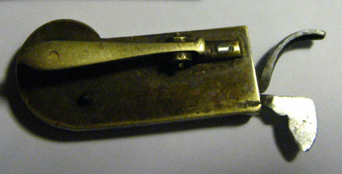 Scarificator, medieval medical instruments for phlebotomy